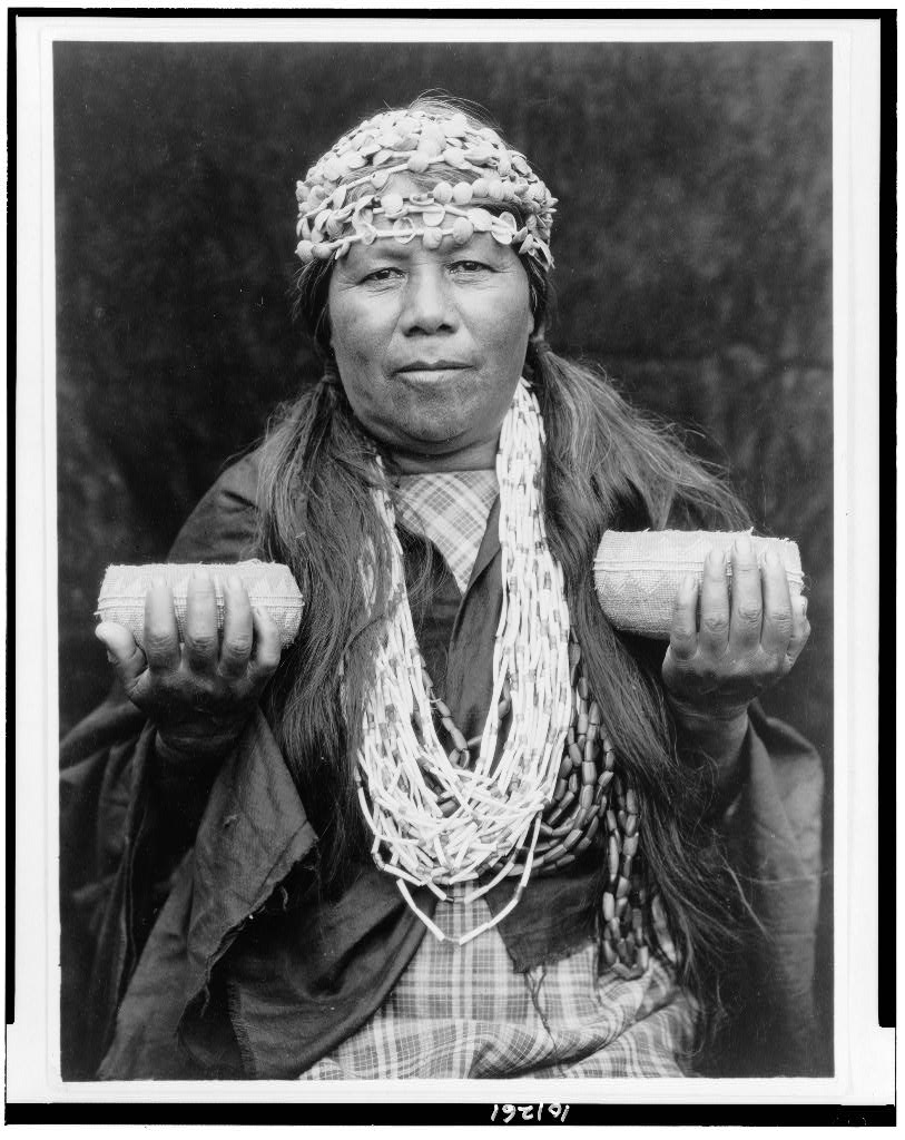 Hupa female shaman Creator(s)- Curtis, Edward S., 1868-1952, photographer Date Created Published- c1923.